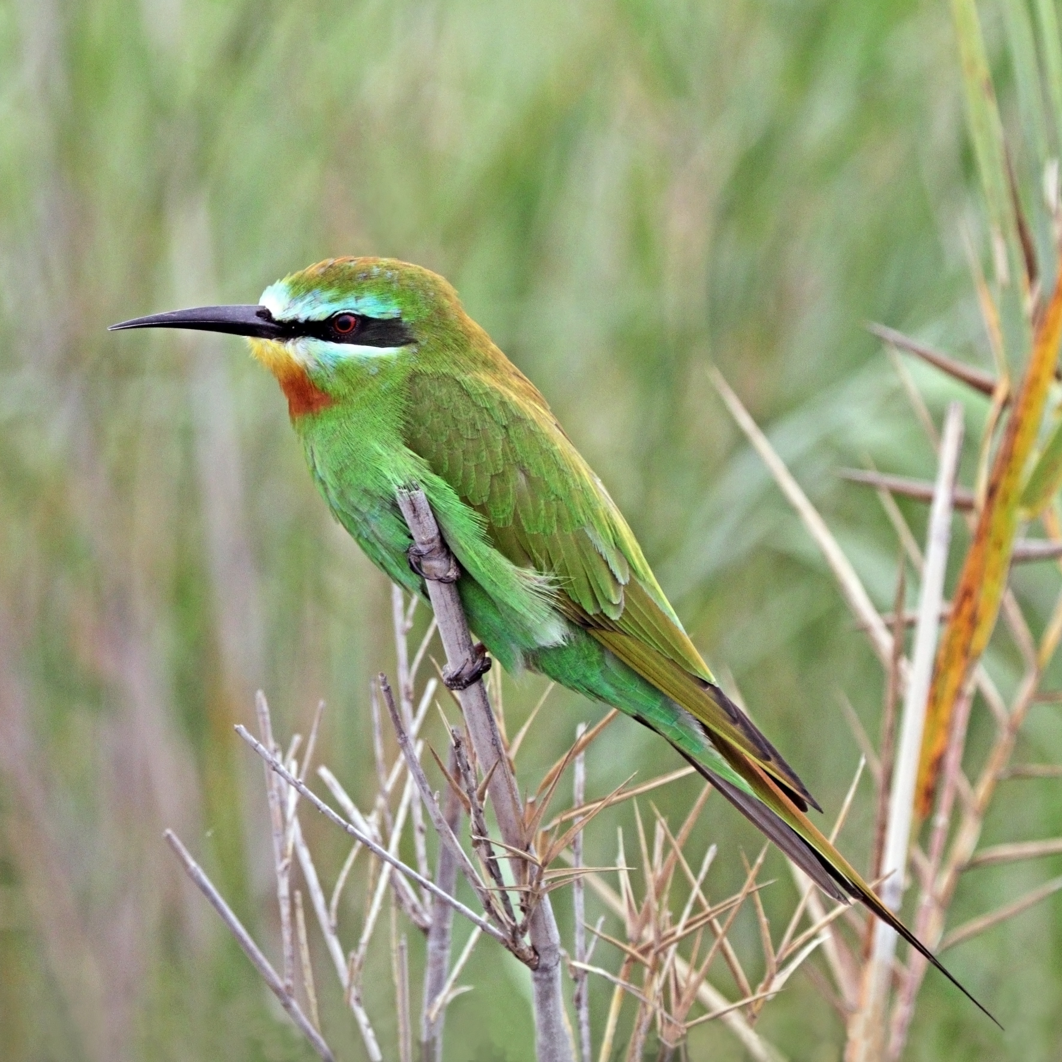 Blue-cheeked bee-eater (Merops persicus persicus), Namibia